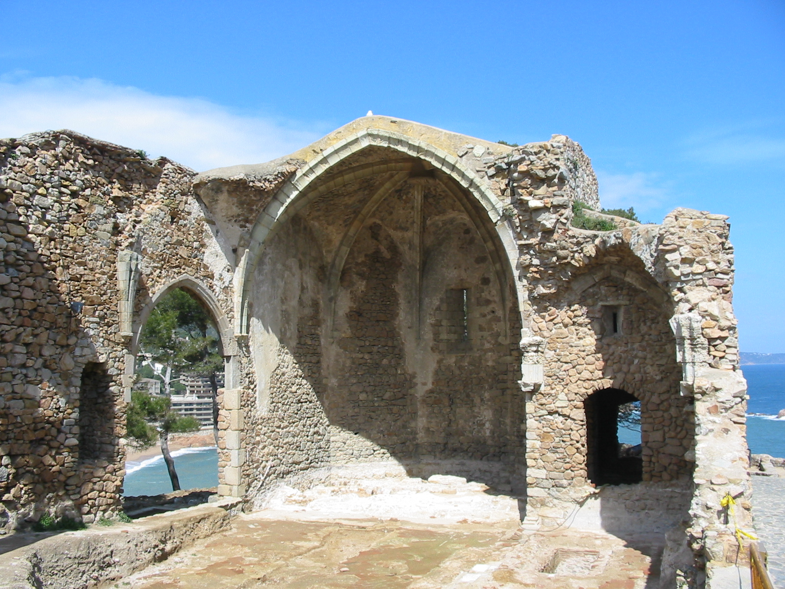 Tossa de Mar, Costa Brava, Catalonia: Remnants of Gothic church